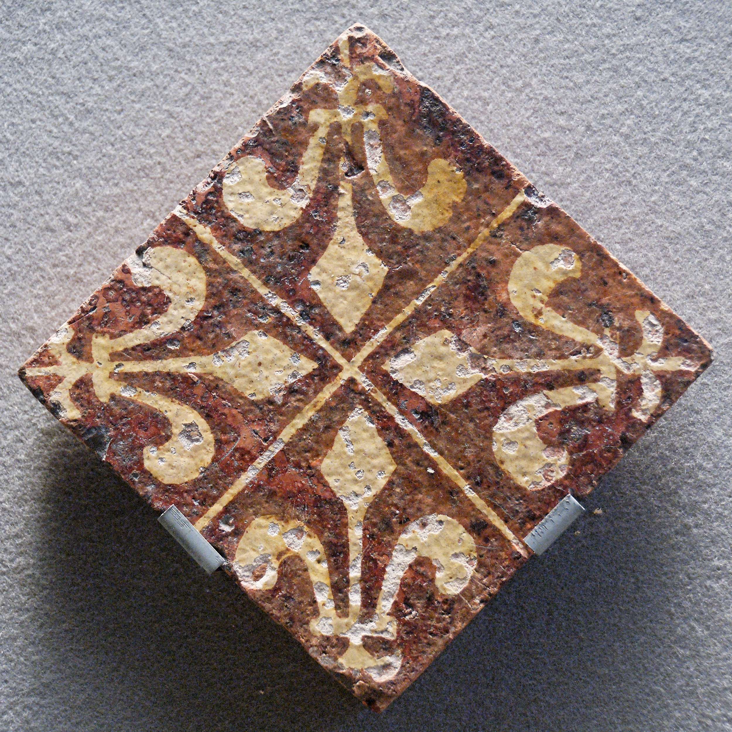 Pavement tile with four fleur-de-lis. Varnished terracotta, France, 14th century.